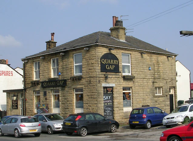 Quarry Gap - Dick Lane On a sports ground attached to this Hotel in 1864 Mrs Emma Sharp, a miners wife, undertook a pedestrian feat of walking 1,000 miles in 1,000 consecutive half hours. Walking backwards and forwards on a 120 yeard stretch. The walk was completed on 29th October before a crowd of 25,000, there was much betting on the outcome.